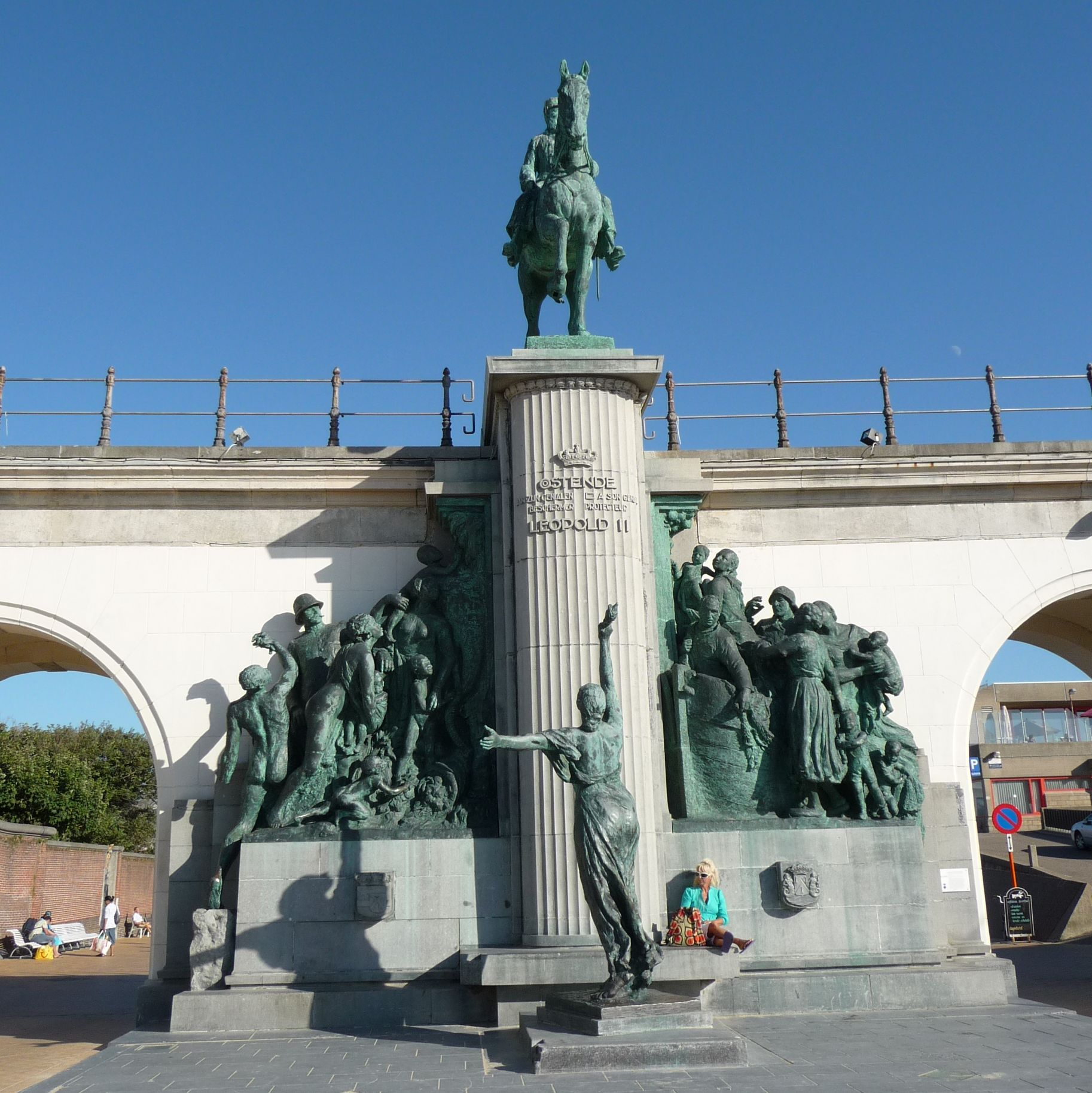 Oostende Beach